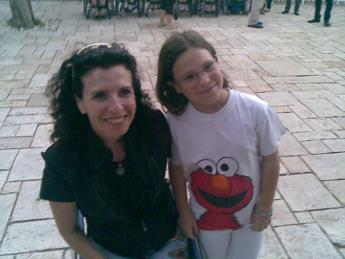 Pascal Berkowitz, Presidential Award for Voluntarism ceremony, attended by President Shimon Peres, August 2010